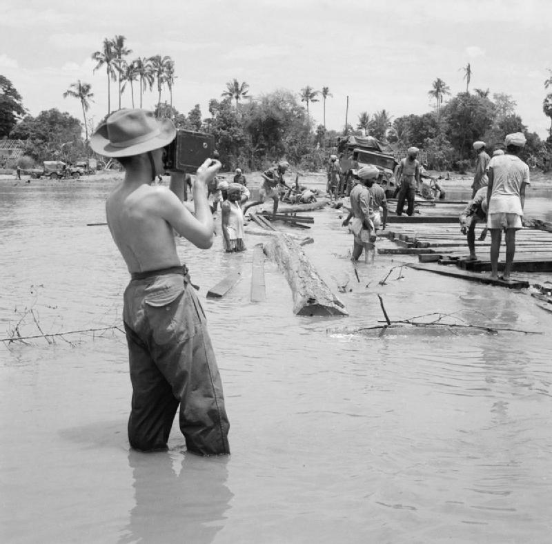 Sergeant Basil Wishart of No. 9 Army Film and Photo Section films Indian troops crossing a river near Meiktila, Burma in 1945. Cameramen in uniform: Stripped to the waist, Sergeant Basil Wishart of No 9 Army Film and Photo Section films Indian troops crossing a river near Meiktila, Burma in 1945.